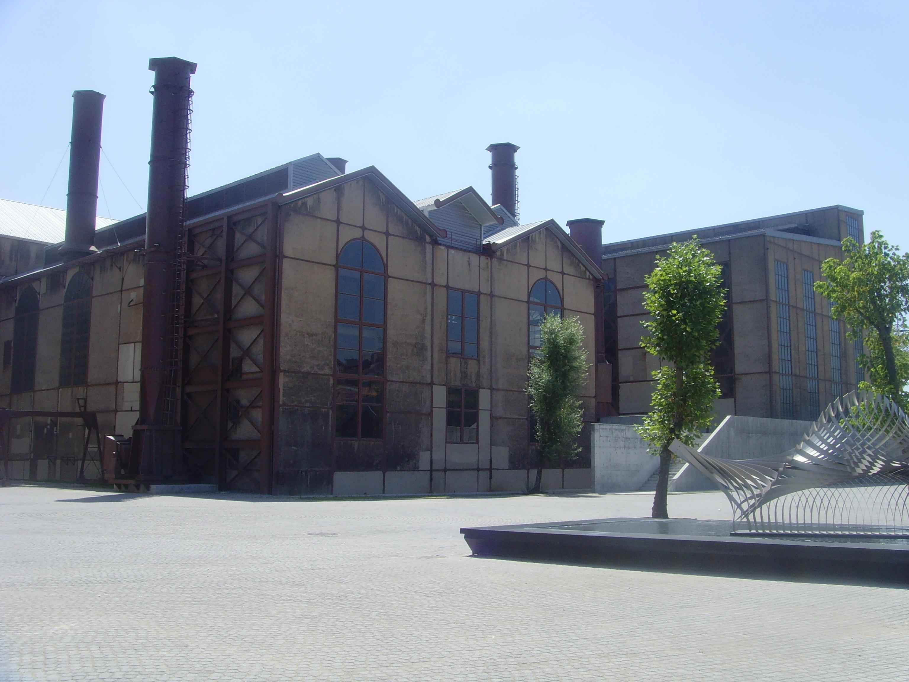 SantralIstanbul - exterior